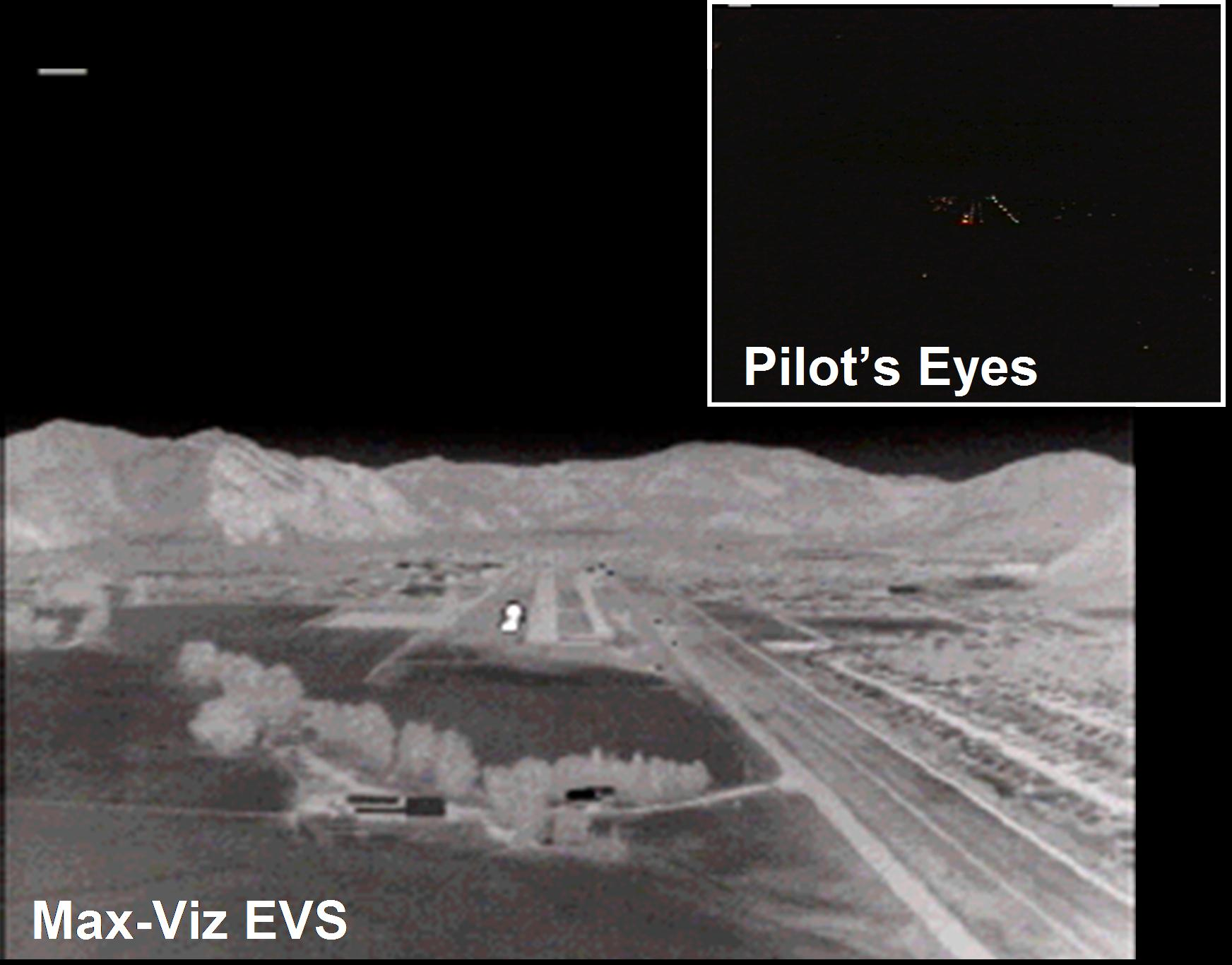 Max-Viz EVS with witness camera at night above Sun Valley, Idaho